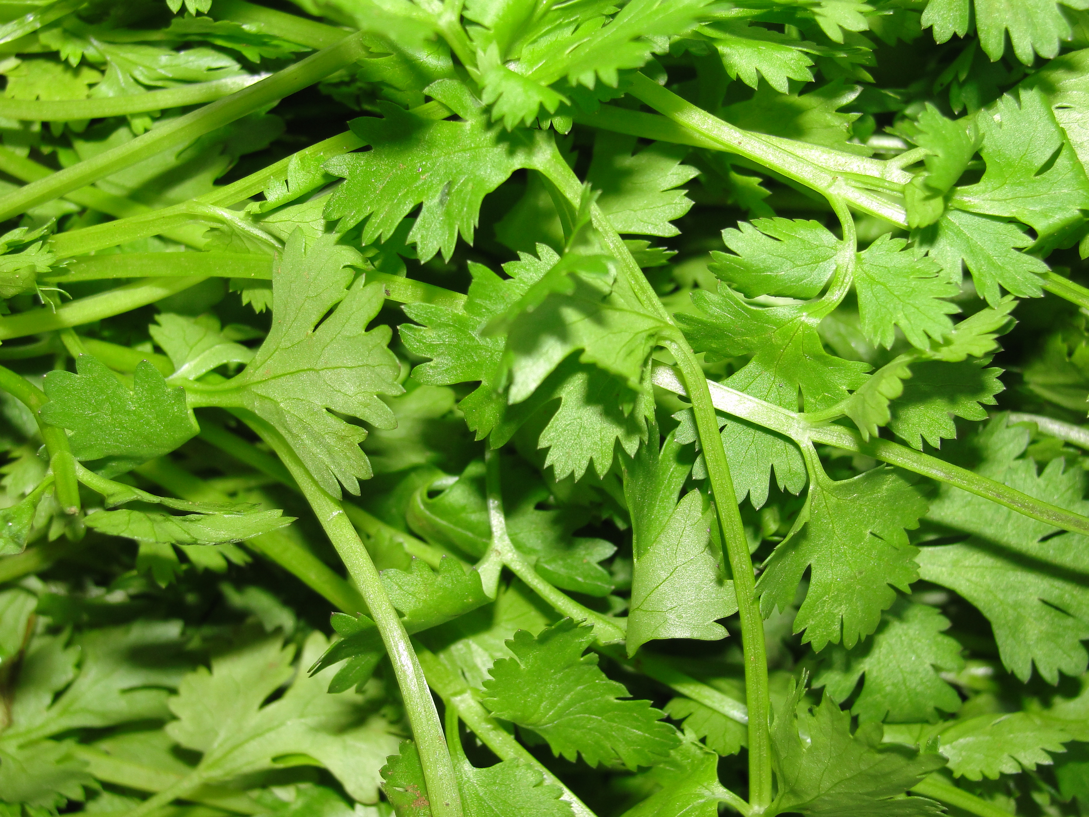 A scene of Coriander (Coriandrum sativum) leaves